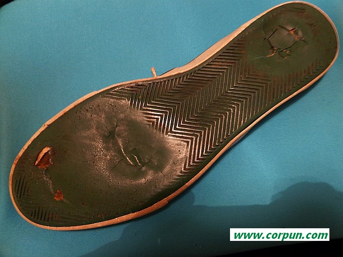 A slipper used in a British school before 1987